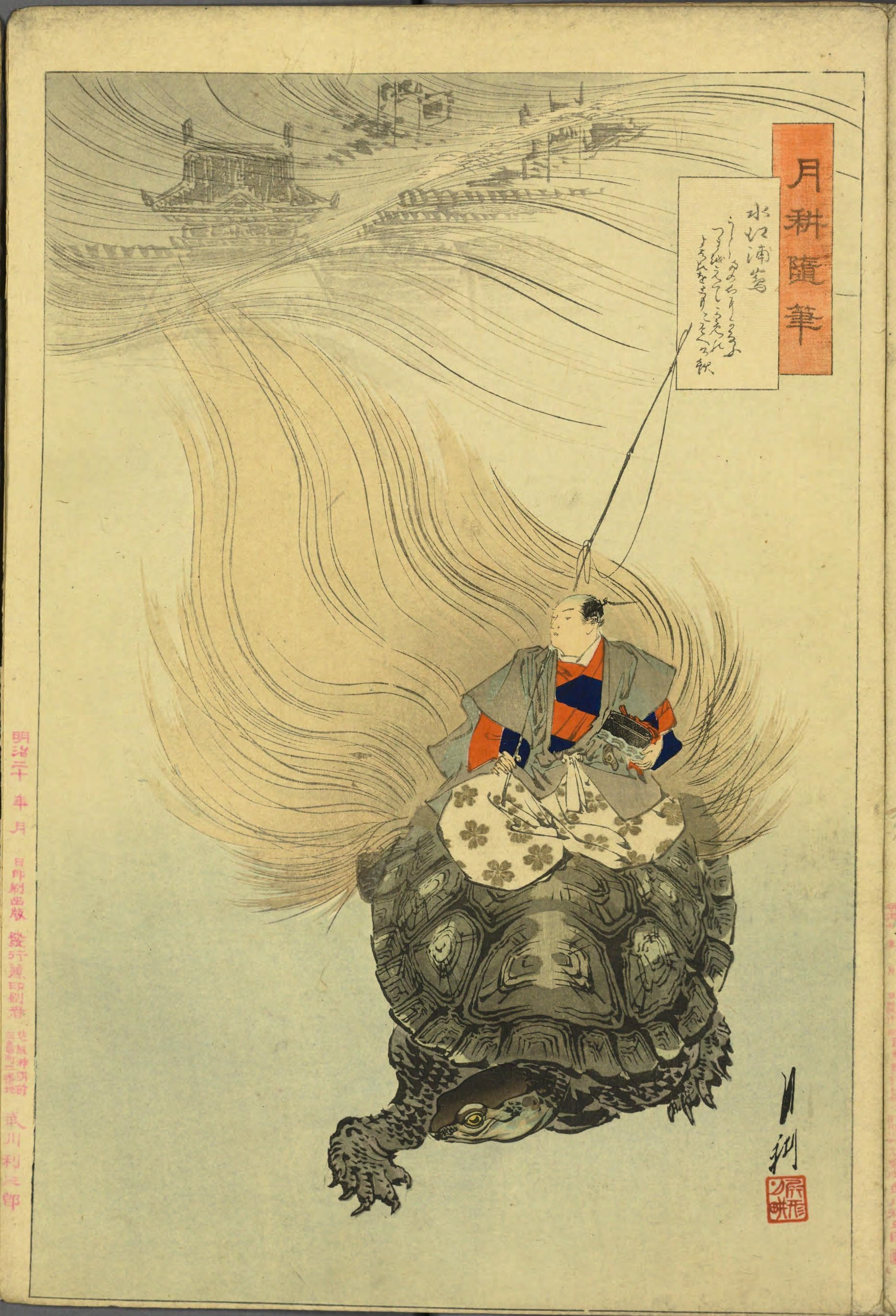 Mizuenoe no Urashima riding a turtle with flowing tail (mino game). This Urashima has a fishing pole and is contemporary Edo Period garb and has mage hair, but Mizuenoe no Urashima appears in a story in Tango no ki Fudoki dating to 713/715 A.D. He is a precursor of Urashima Taro. Hayashi says this appears more like a river turtle than oceanic.[1]